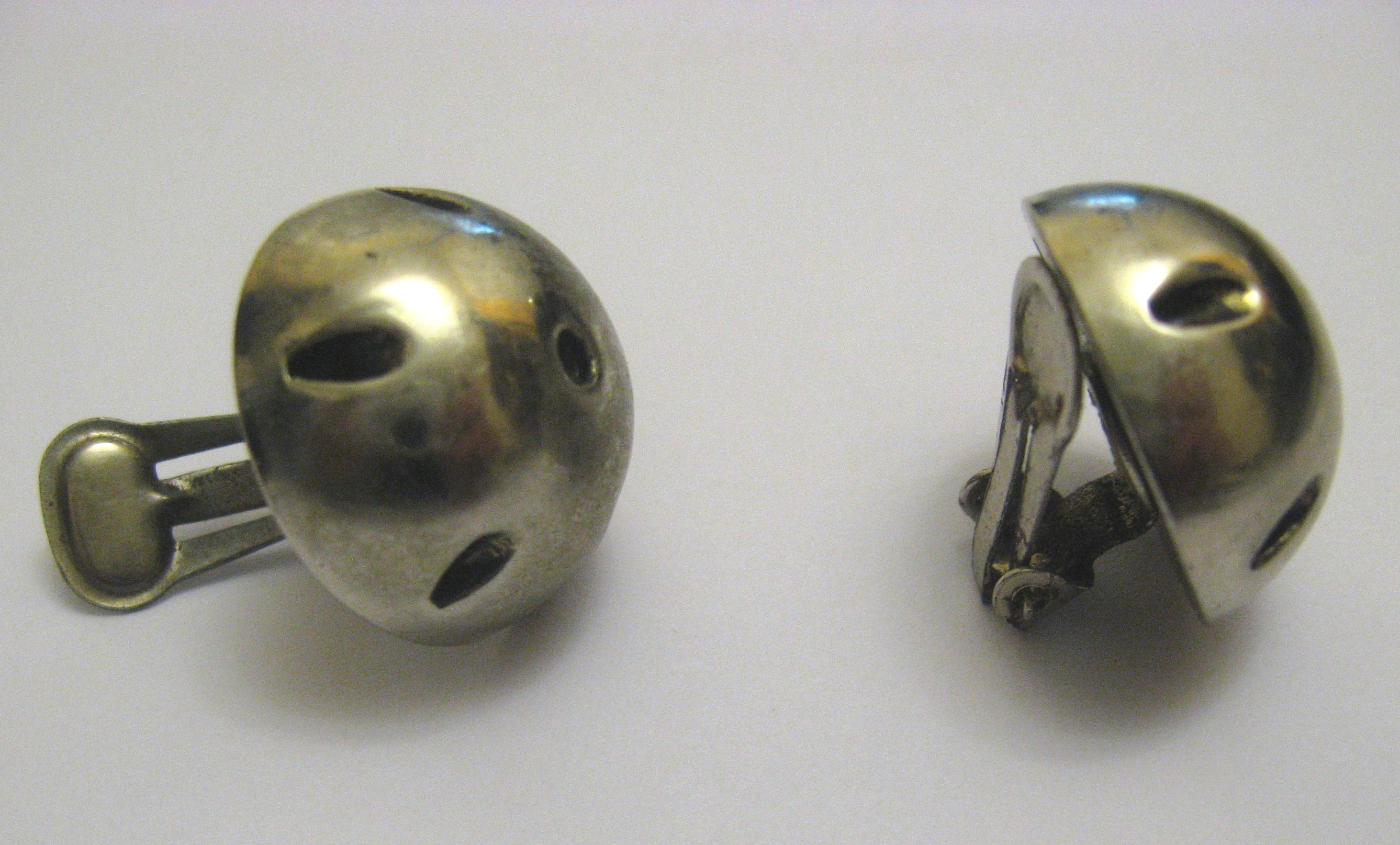 clip earings